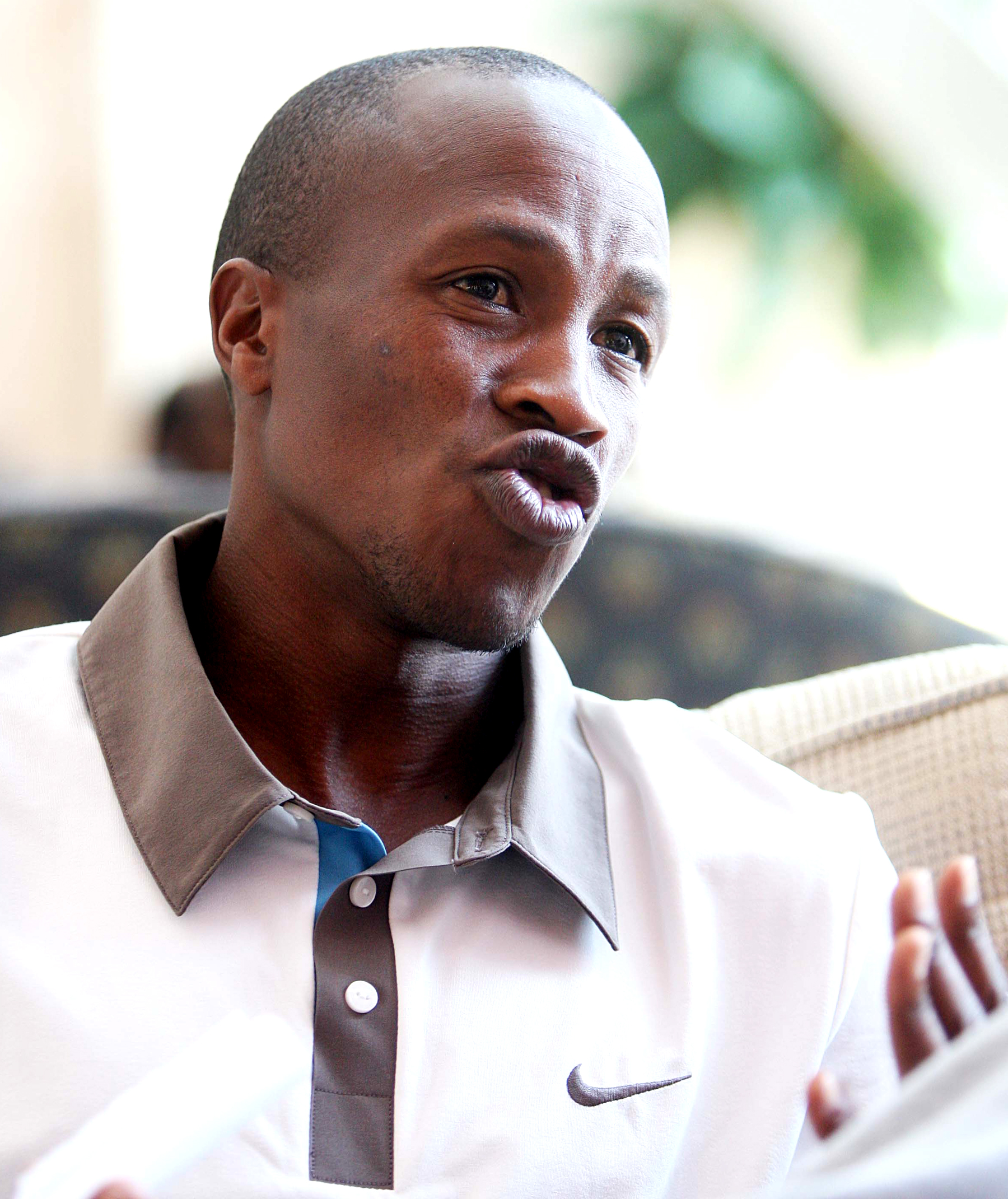 Qatar's 3,000M steeplechase world record holder Saif Saaeed Shaheen speaks during a visit to Aspetar, Qatar Orthopaedic and Sports Medicine Hospital.